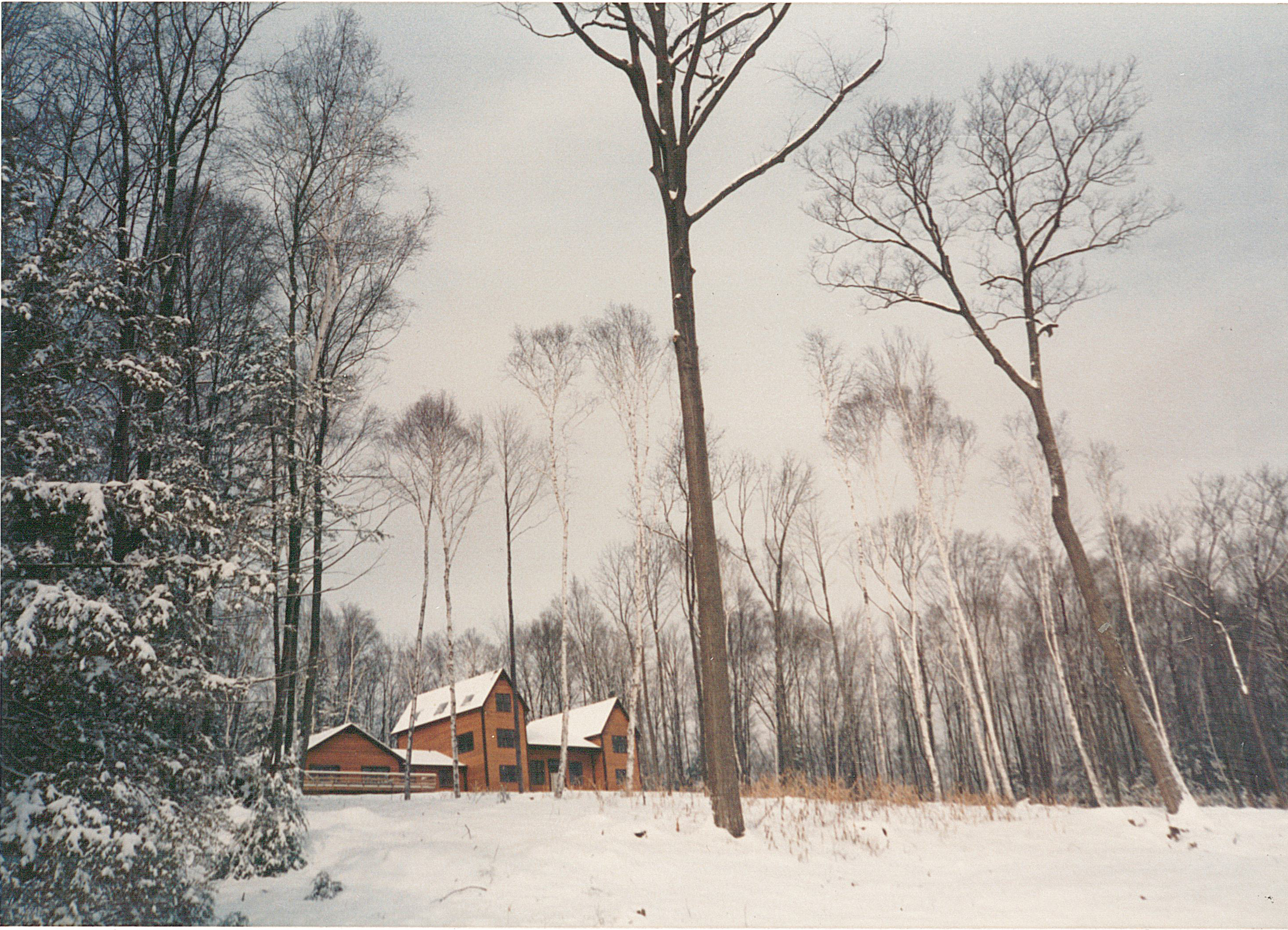 The house in Woodstock, New York, where Gail Godwin wrote many of her books. Here she lived with her partner Robert.